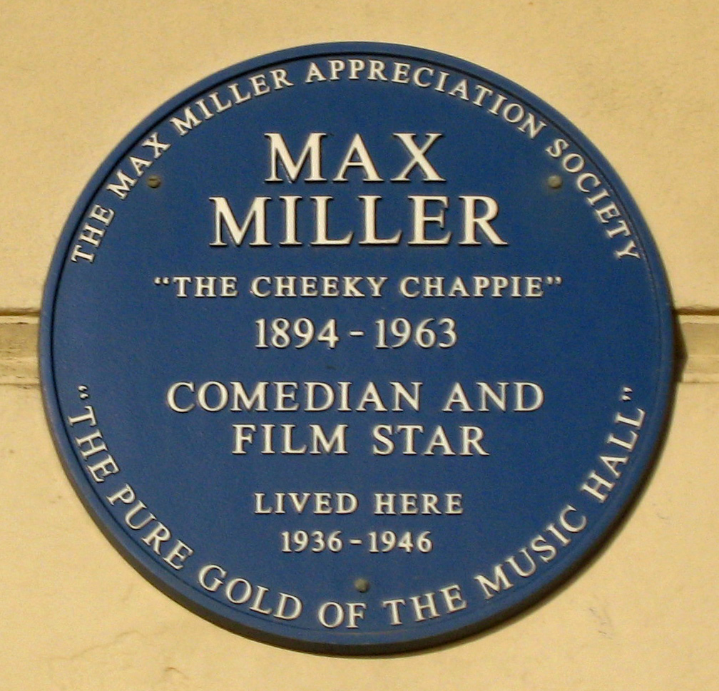 Blue plaque affixed to the front of 160 Marine Parade, Brighton to commemorate Max Miller's residency in the house between 1936 and 1946. The plaque was unveiled by Roy Hudd OBE and Michael Aspel OBE on the 19th. November 2006